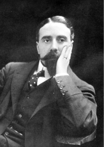 Photograph of Thomas Beecham, reproduced in The Musical Times, 1 October 1910, p. 632. Cropped from original.